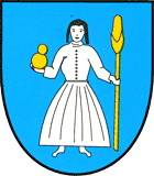 Pielgrzymowice COA